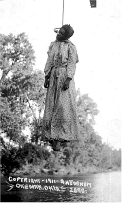 The barefoot corpse of lynched Laura Nelson. May 25, 1911, Okemah, Oklahoma. Gelatin silver print. Real photo postcard. 3 1/2 x 5 1/2". Etched in the negative:"copyright-1911-g.h.farnum, okemah. okla 2898." Stamp on reverse, "unmailable." District Judge Caruthers convened a grand jury in June 1911 to investigate the lynching of the Laura Nelson and her son. In his instructions to the jury, he said, "The people of the state have said by recently adopted constitutional provision that the race to which the unfortunate victims belonged should in large measure be divorced from participation in our political contests, because of their known racial inferiority and their dependent credulity, which very characteristic made them the mere tool of the designing and cunning. It is well known that I heartily concur in this constitutional provision of the people's will. The more then does the duty devolve upon us of a superior race and of greater intelligence to protect this weaker race from unjustifiable and lawless attacks." Laura Nelson was hanged along with her son for the murder of a white deputy sheriff. Both mother and son insisted to the sheriff that they shot the deputy. It was later determined that it was the son who did the shooting. The deputy went to the Nelson house to recover stolen meat. When the deputy attempted to arrested the woman, evidently the son appeared with a gun and shot him. The allegation of rape and/or murder was the impetus for the vast majority of white-on-black lynchings between 1882 to 1960